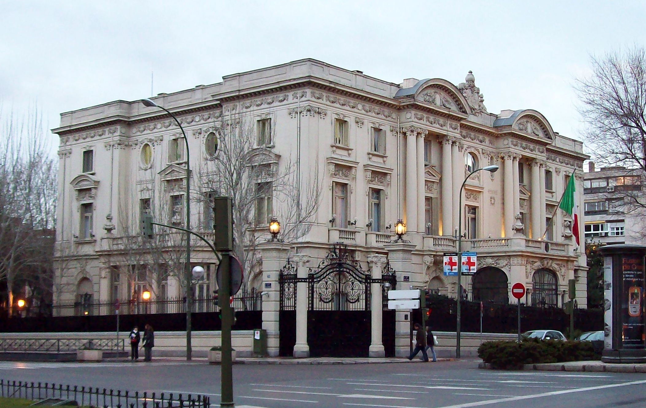 View, from the north-east angle, of the Italian Embassy seat in Madrid (Spain), also known as Palacio de Amboage.